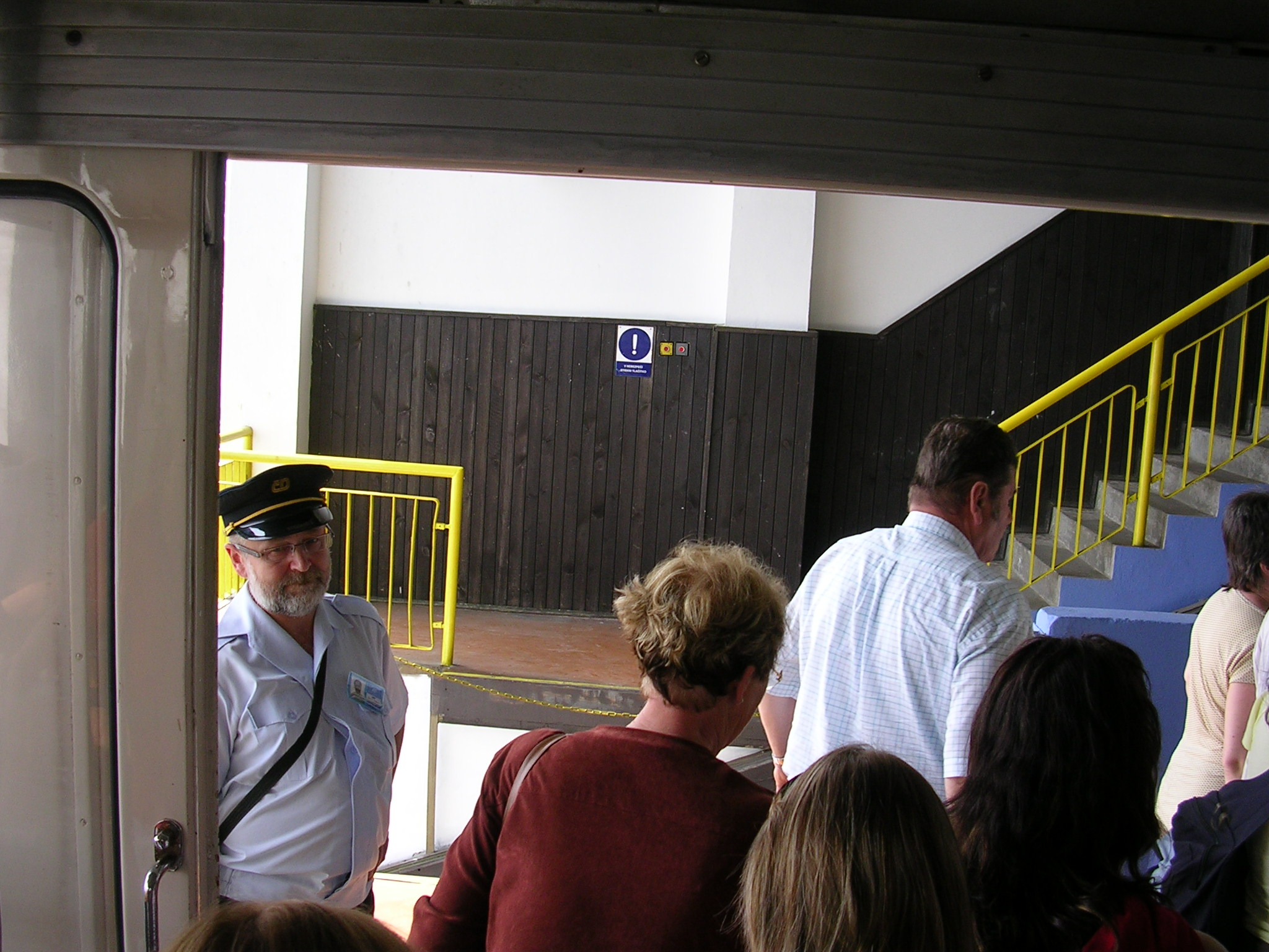 Ještěd cable car. Ještěd station.